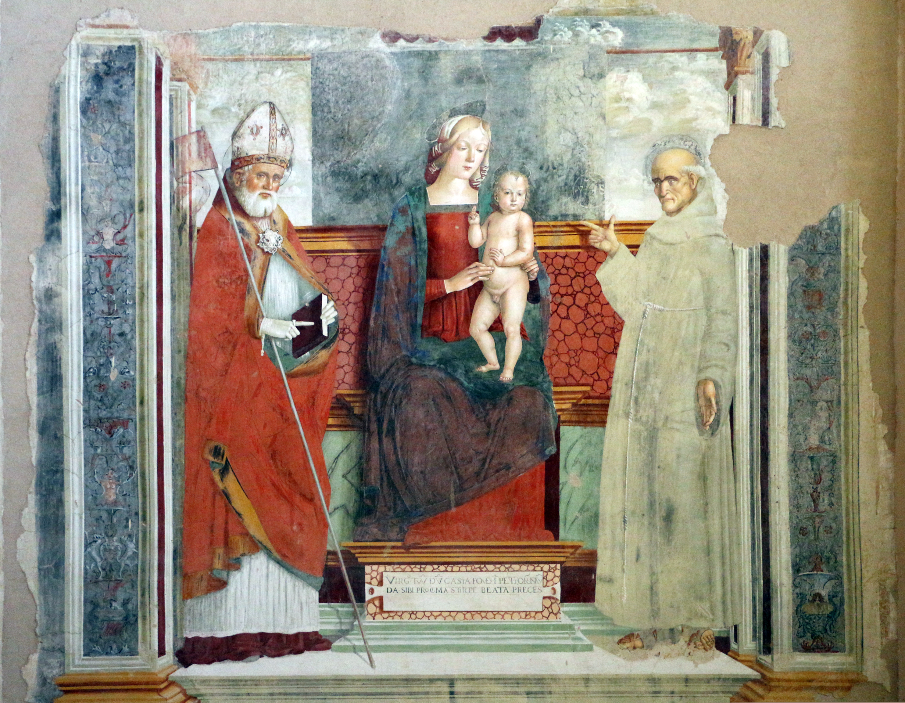 Sant'Esuperanzio (Cingoli)